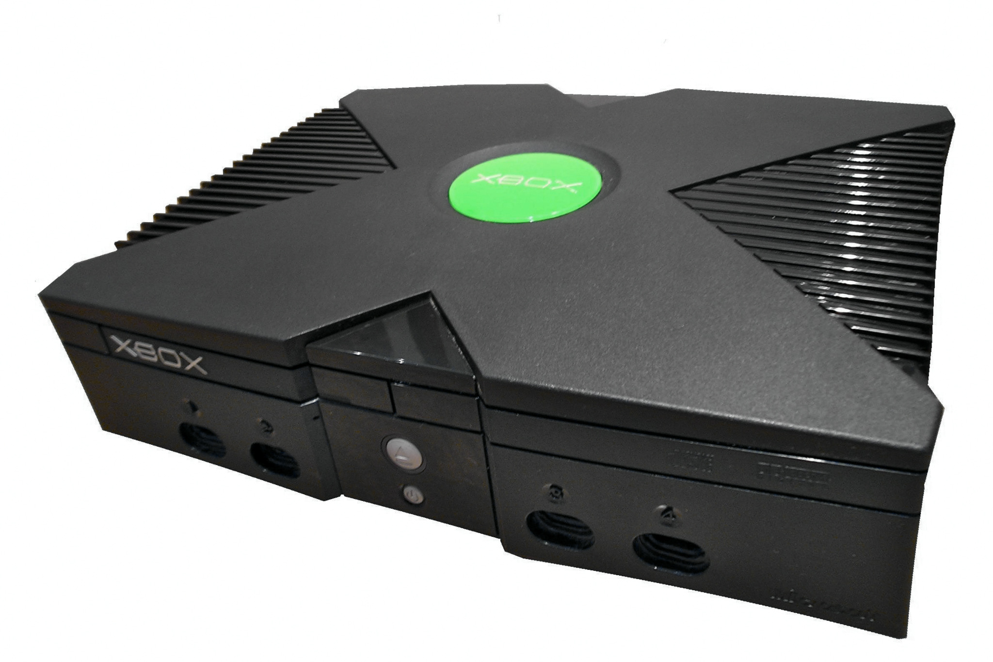 This is a photo of my Xbox made and edited by myself